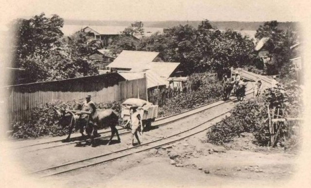 Ox-drawn cart on Diego Suarez - le Camp d'Ambre railway